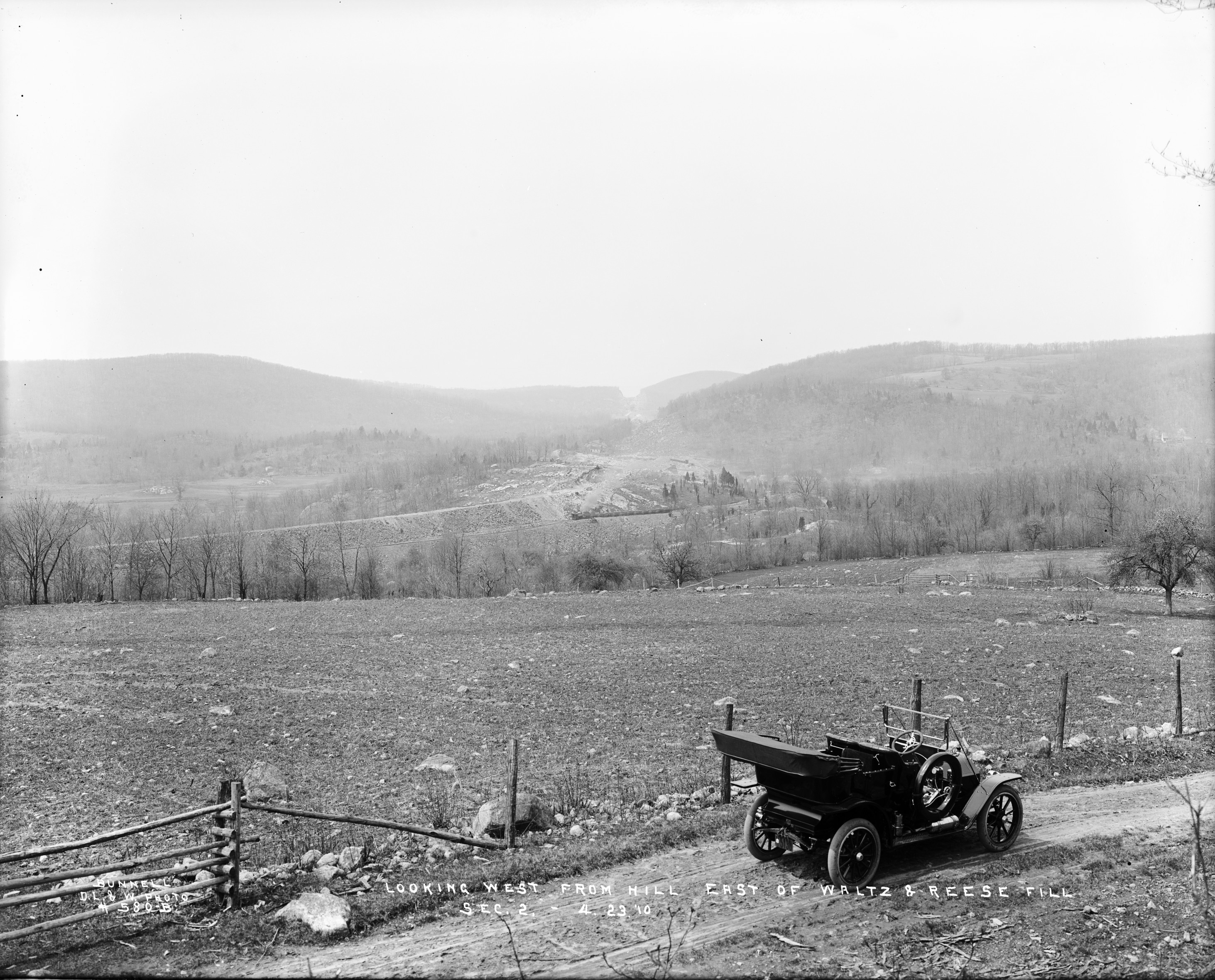 Photo of Waltz & Reece Fill on the Lackawanna Cut-Off - April 23, 1910. Other information This images and other related ones are part of the Lackawanna Railroad's collection of glass negatives. This photo was taken on 23 April 1910 by William B. Bunnell, who was the Lackawanna Railroad's staff photographer. (He was an employee of the railroad.) The glass plate negative was developed by Mr. Bunnell for use by the railroad in documenting the construction of the Lackawanna Cut-Off rail line in New Jersey. This photo was never the photographer's personal property. According to Mr. Perry Shoemaker, the last president of the Lackawanna Railroad, who died December 25, 1999, none of the Lackawanna's photos (which would include this one) were ever copyrighted. Further, the afore-mentioned collection of some 19,000 photographic negatives was donated to Syracuse University in 1951. The Lackawanna Railroad ceased as a corporate entity on October 17, 1960. About two years ago (2011), the so-called "Syracuse Collection" of Lackawanna Railroad photographs was transferred from Syracuse University to Steamtown National Historic Site in Scranton, Pennsylvania, where it now resides.